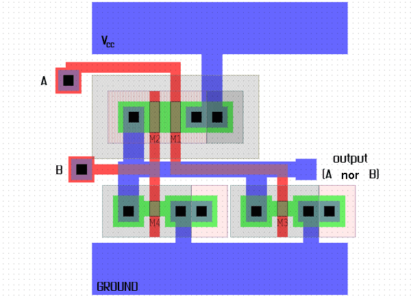 Shows a CMOS implementation of a NOR gate. Also used at